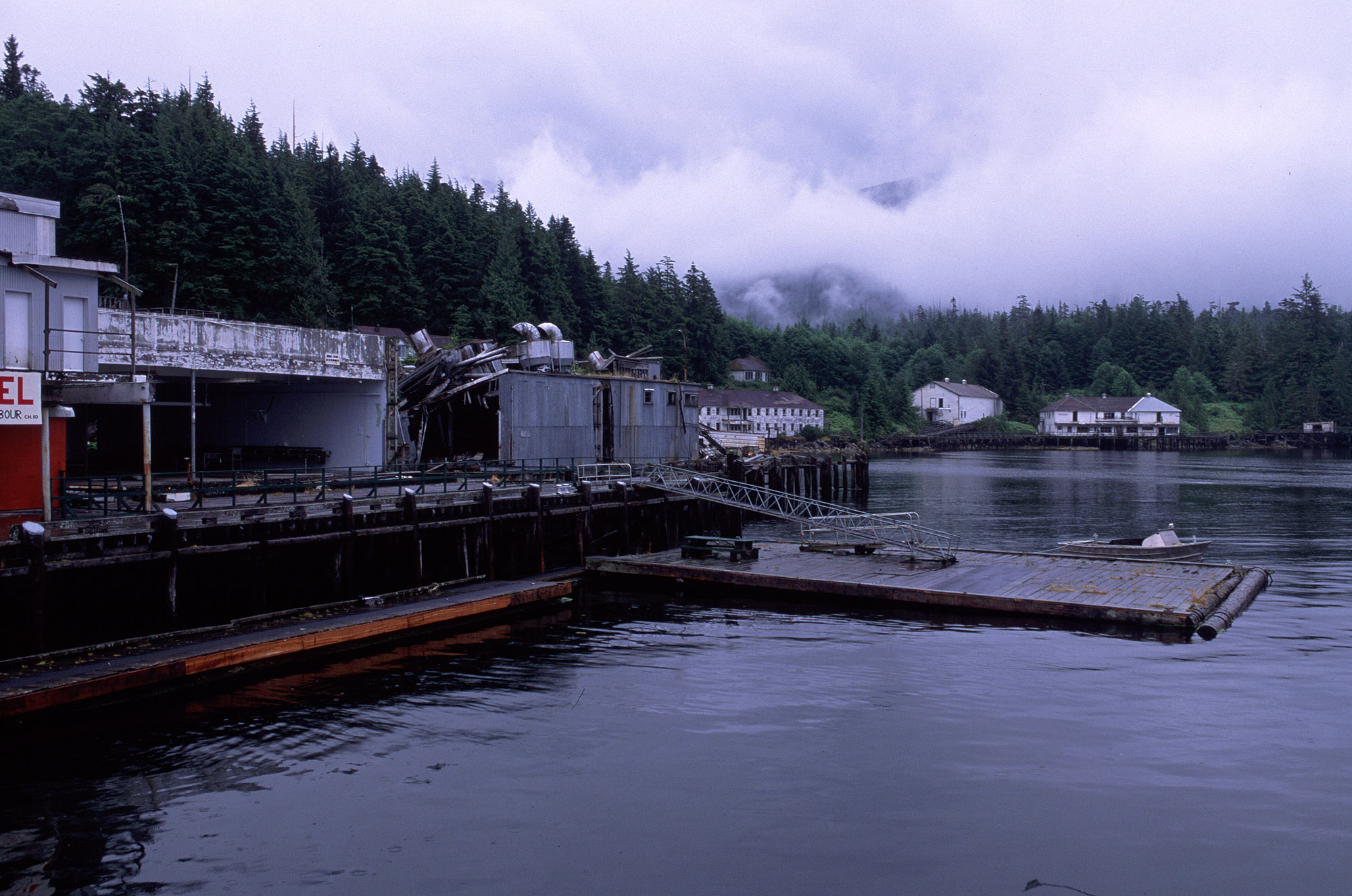 I took this photo August 1st, 2001. You can find the original photo here.